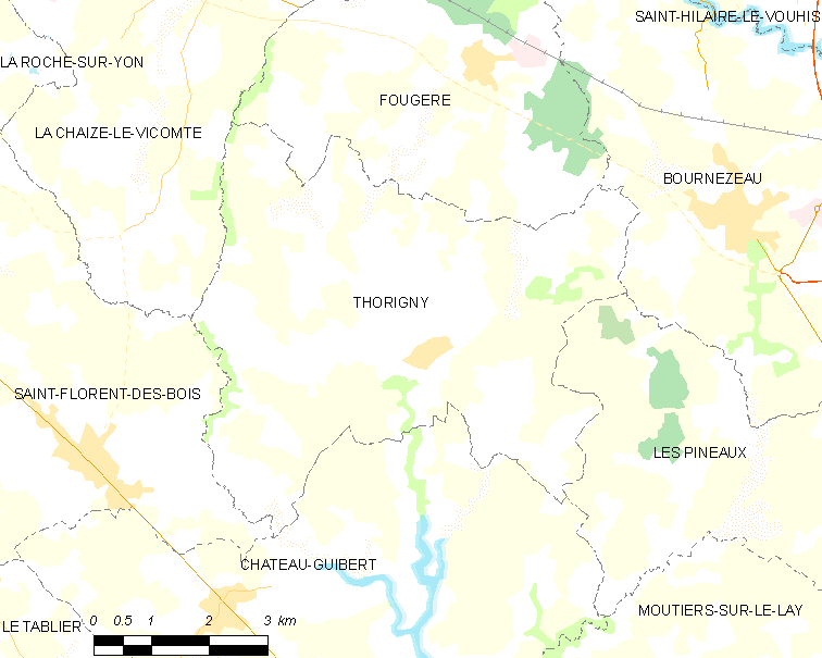 Map of French municipality Thorigny